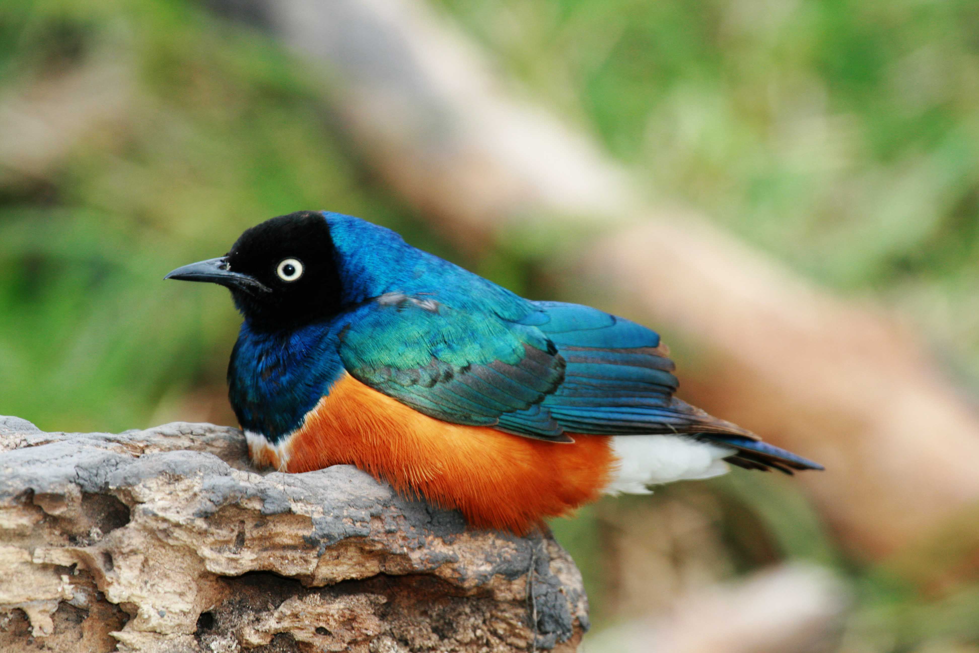 Superb Starling (Lamprotornis superbus), from Ngorongoro crater, Tanzania